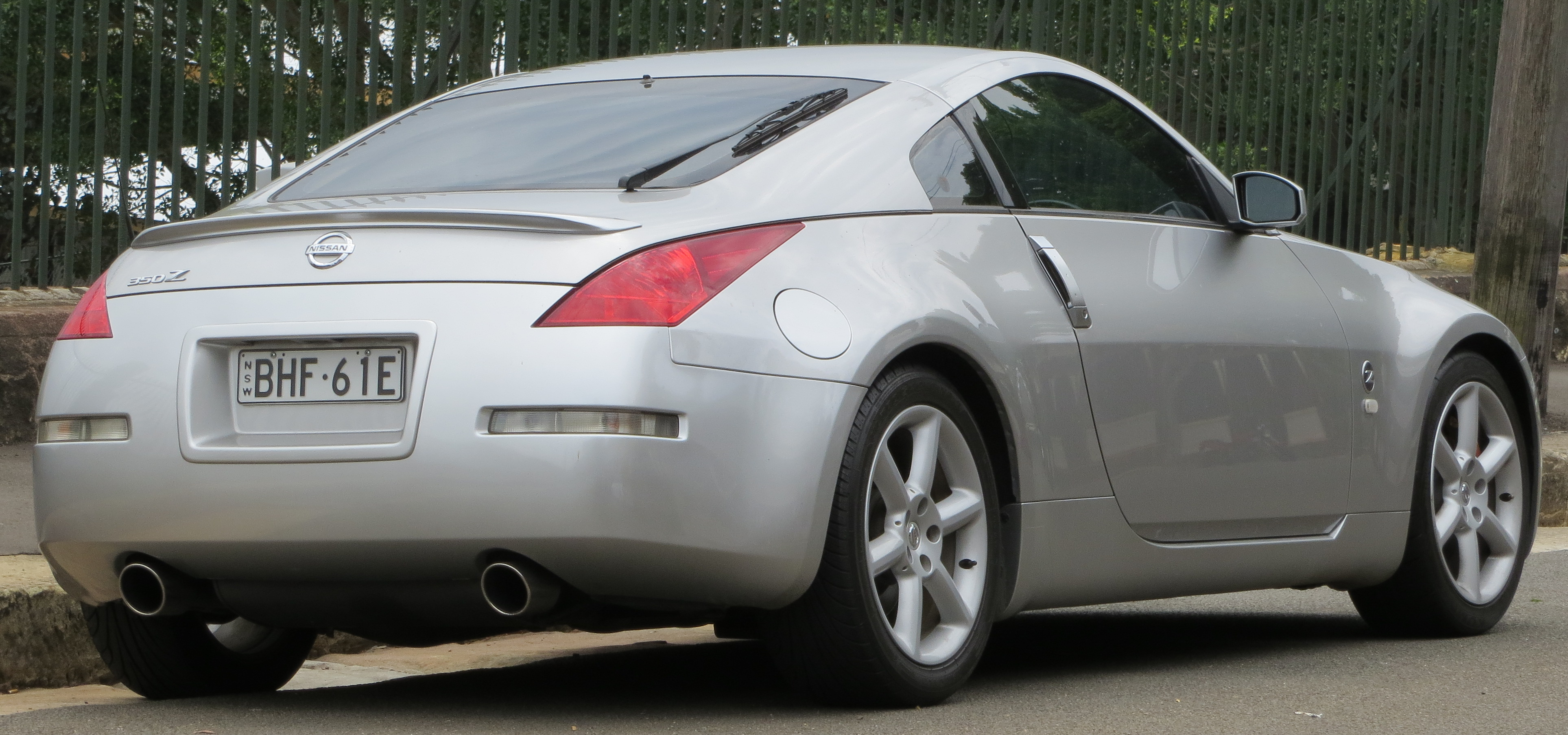 2003 Nissan 350Z (Z33) Track coupe. Photographed in Millers Point, New South Wales, Australia.